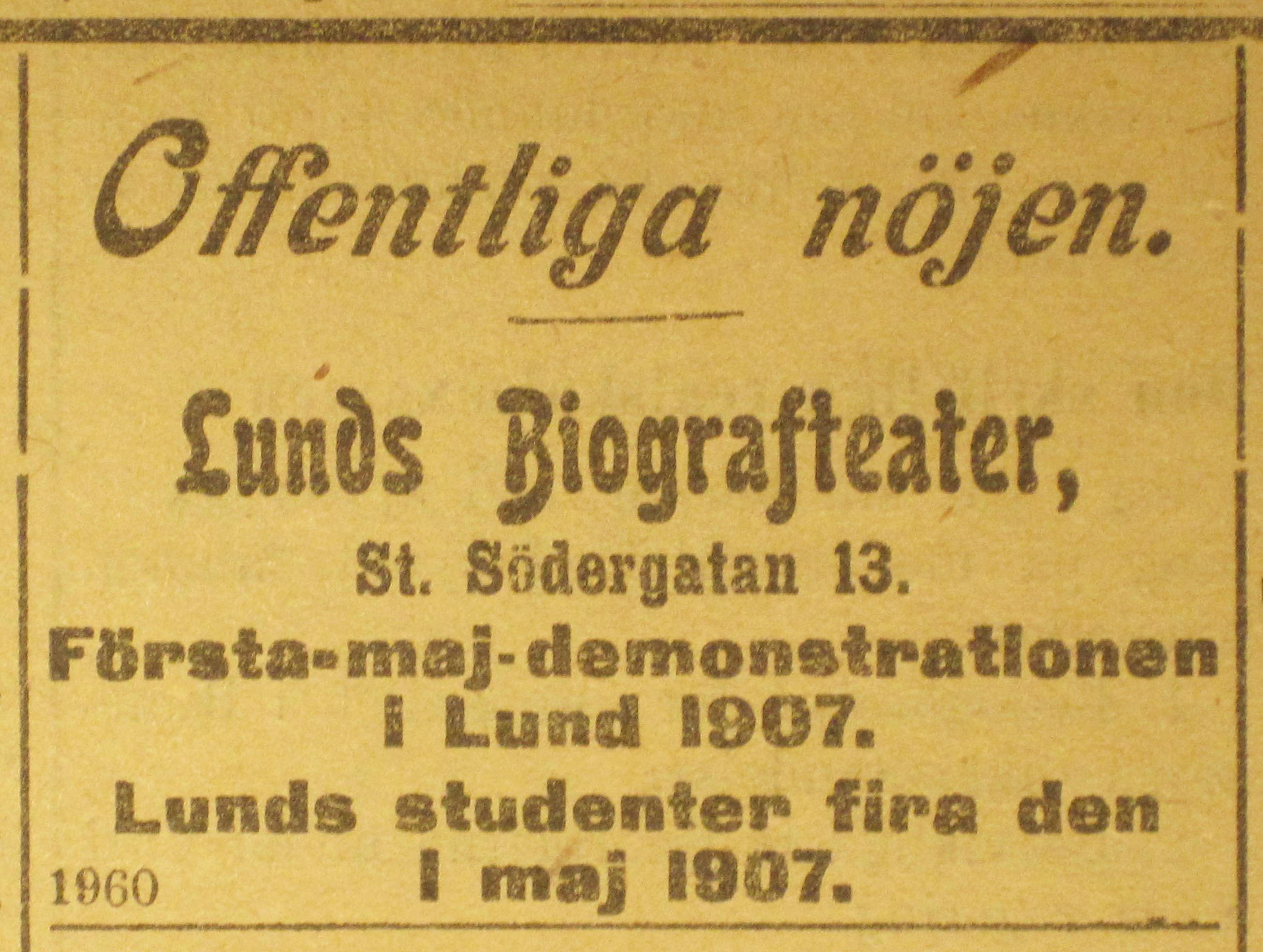 Advertisment in Lunds Dagblad May 4th, 1907 for the premiere of the first movies ever shot in the city of Lund, produced and shown by Karl Oskar Krantz.